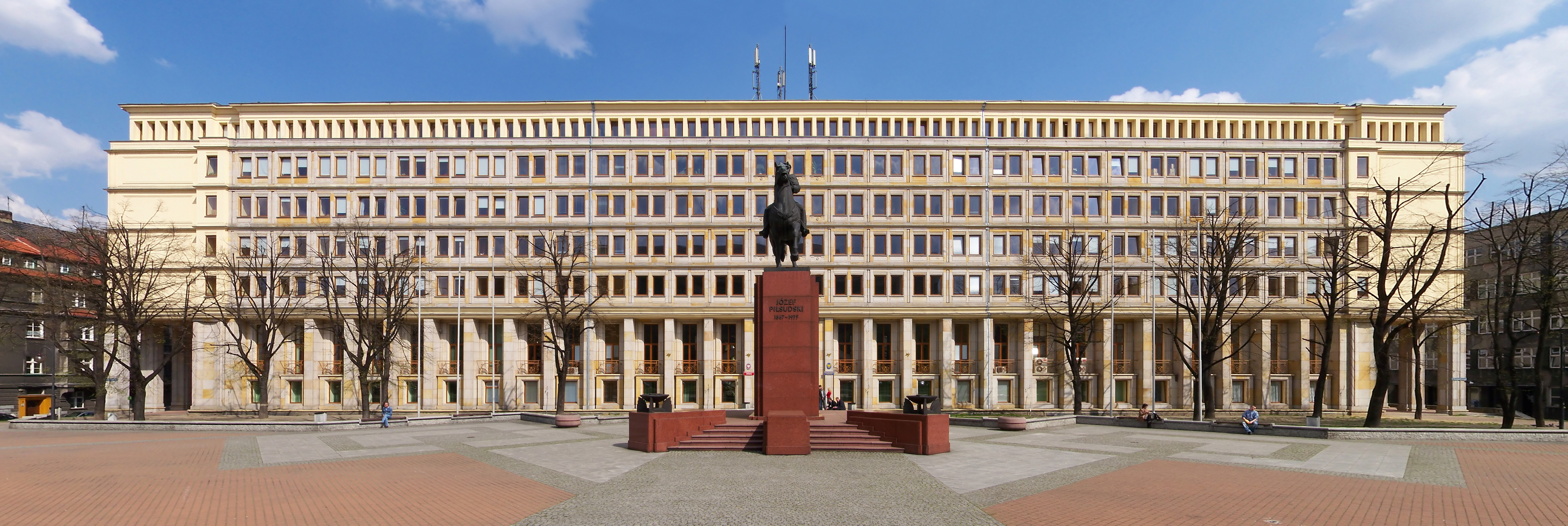 Marshal's department of Silesian Voivodeship in Katowice (Poland).